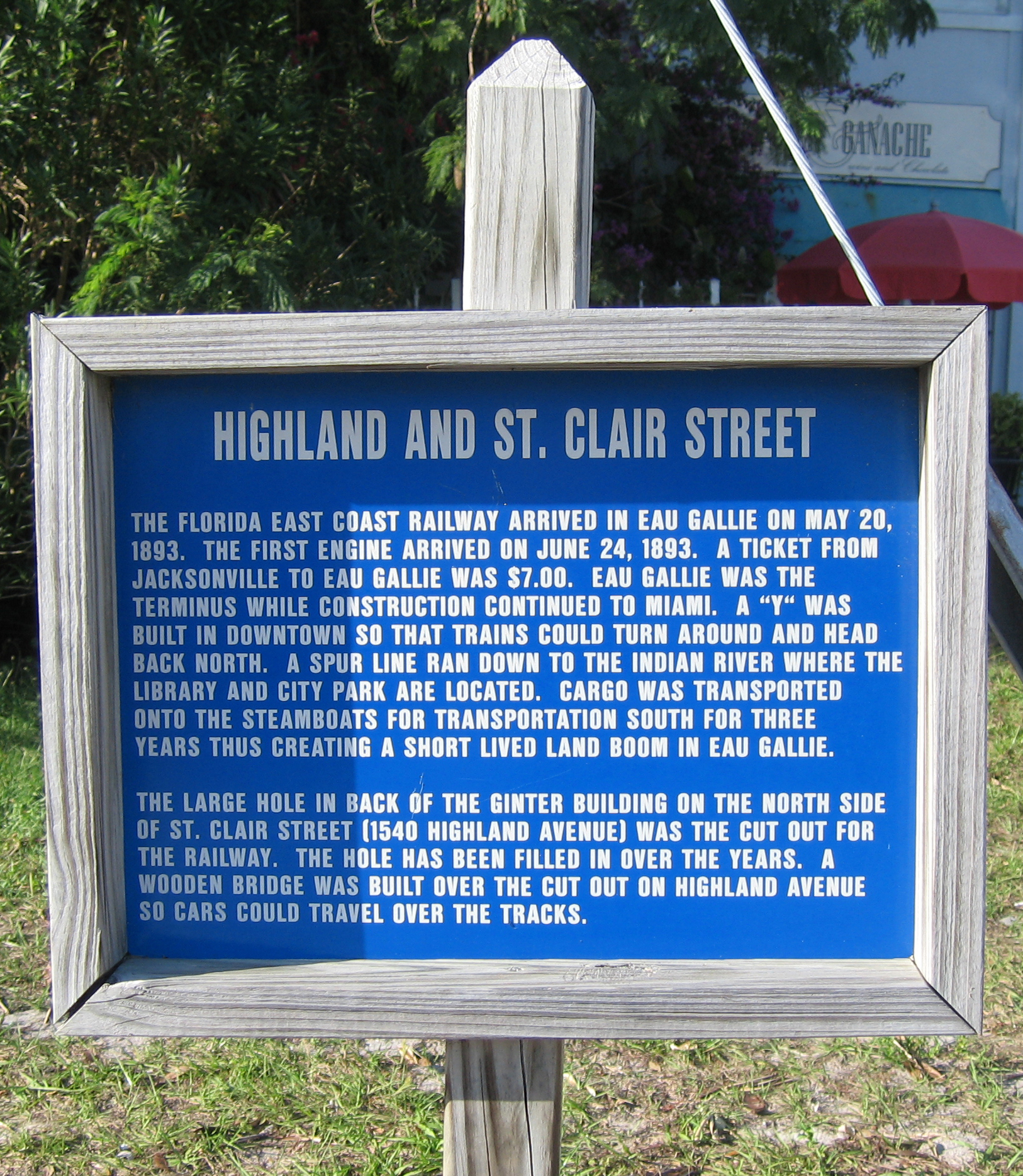 Historical marker designating the intersection of Highland Street and St. Clair Street in Eau Gallie, Florida.